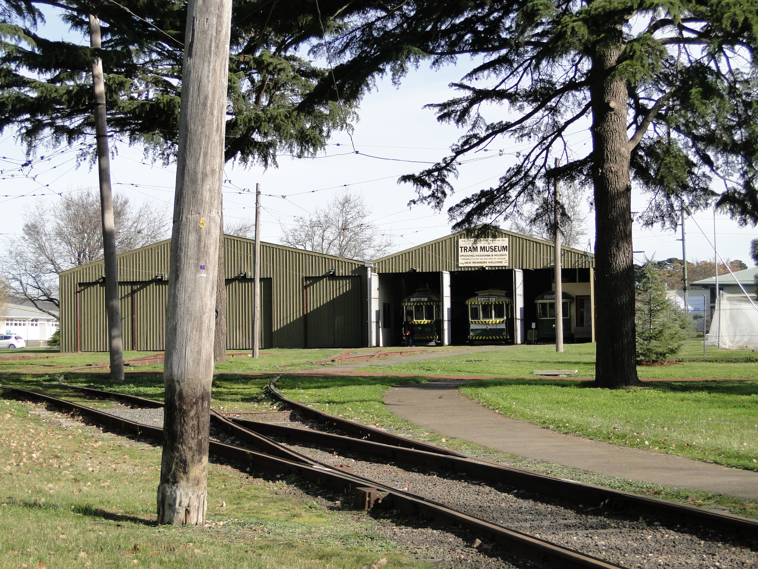 The tram depot at Wendouree, Victoria, Australia, home of the Ballarat Heritage Tramway.